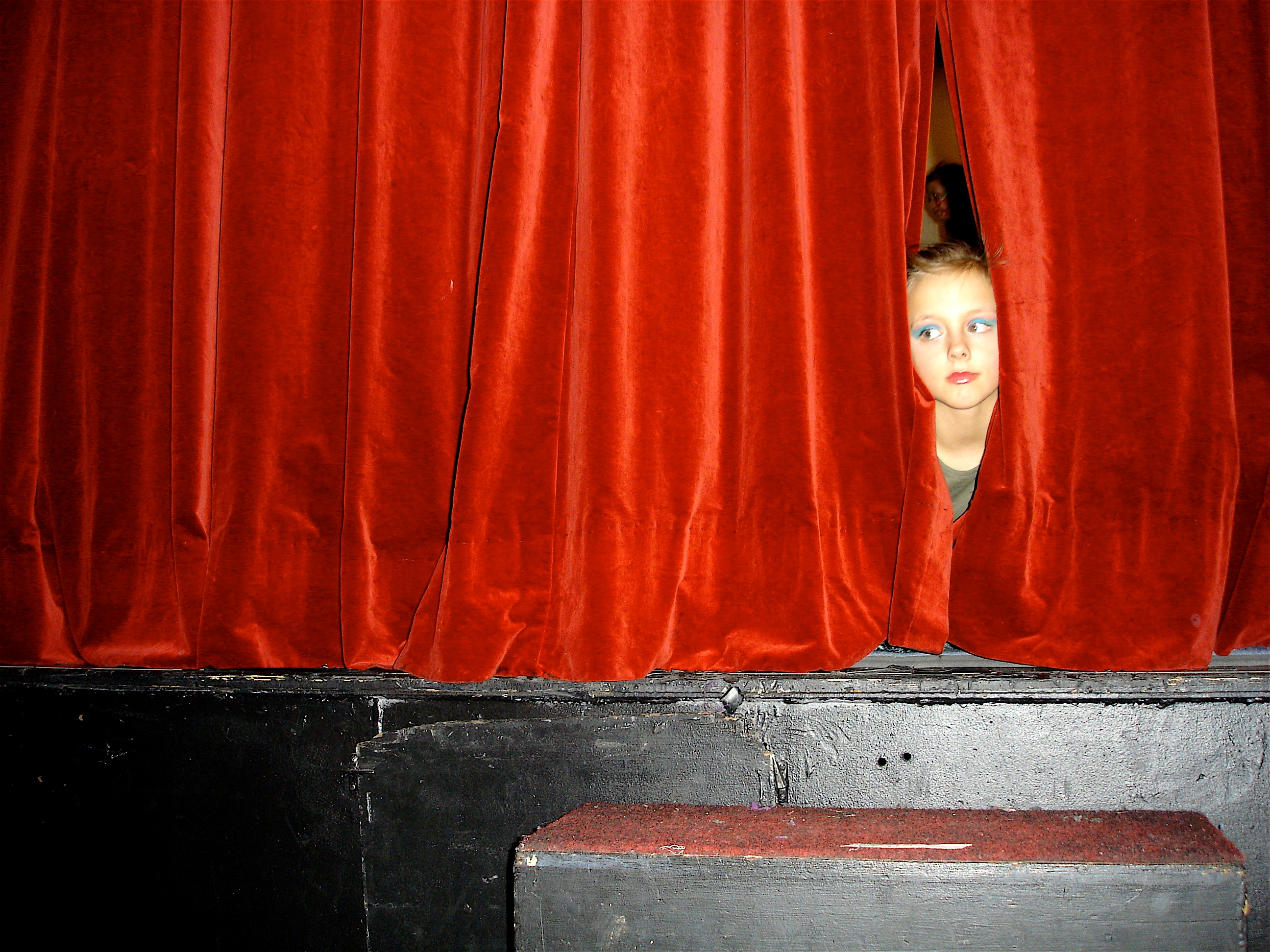 Rampelysfestivalen